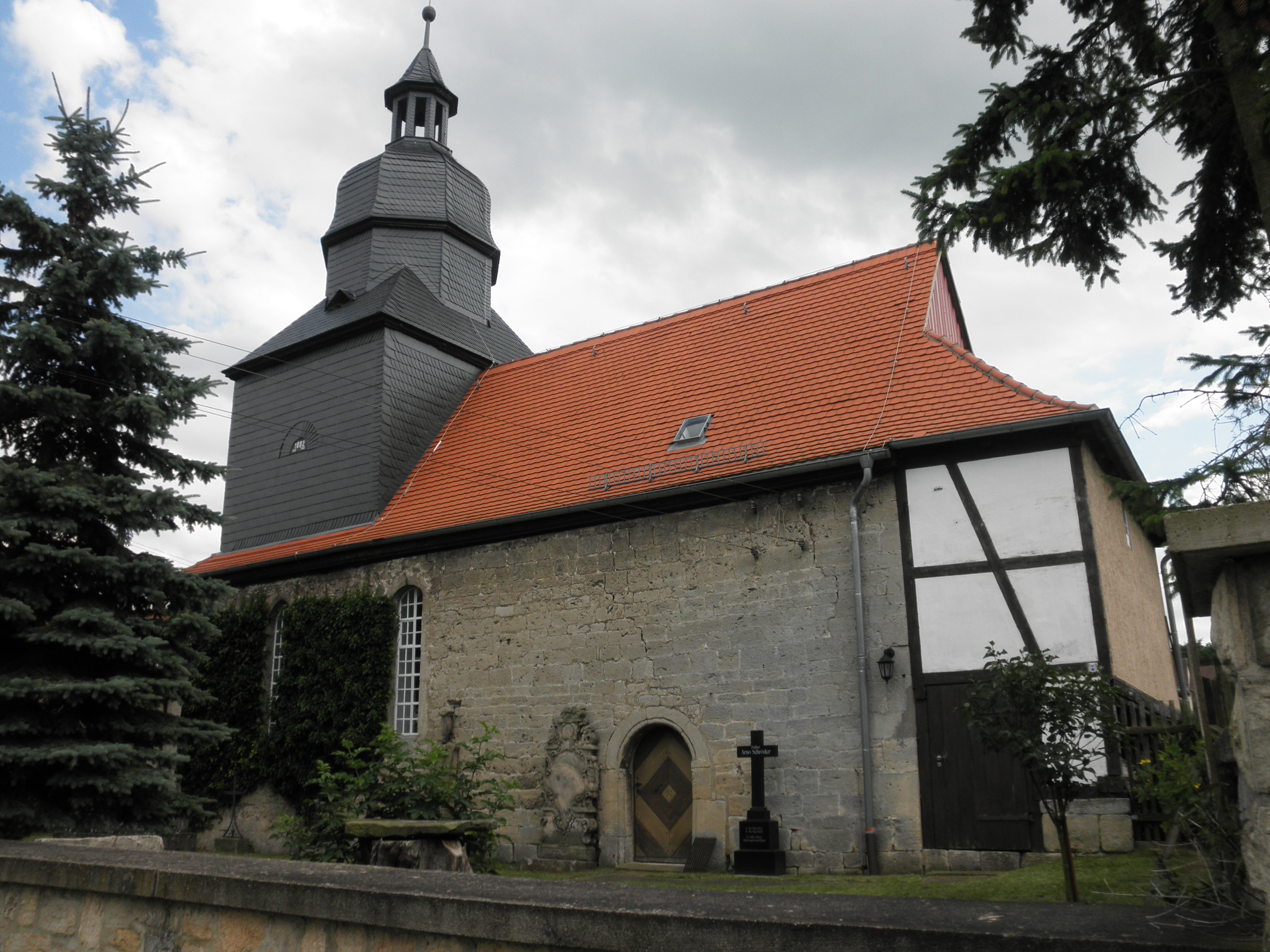 Church in Hainichen (Thüringen) in Thuringia